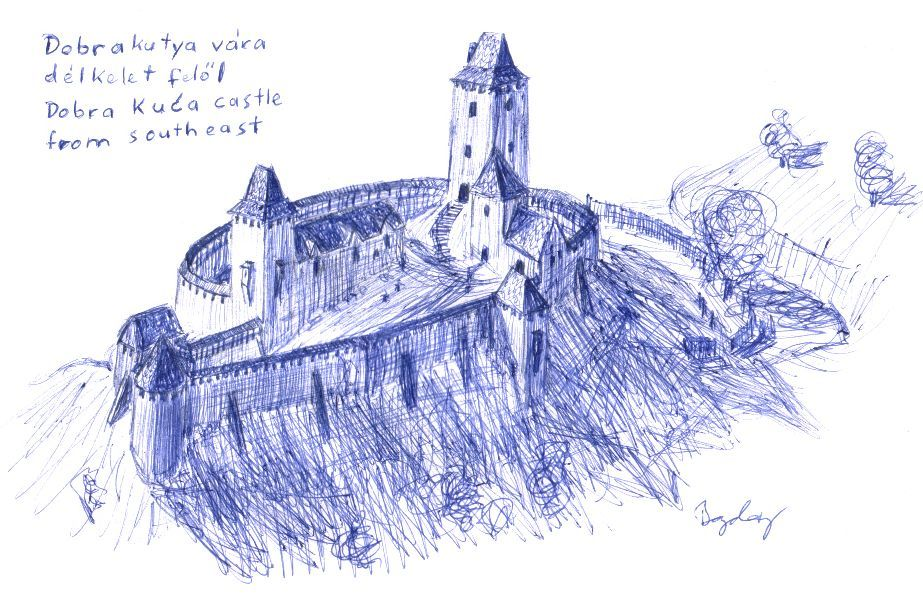 Imaginary sight of Medieval castle Dobra Kuca (Hungarian:Dobrakutya). The present ruins are situated in Croatia, east of Daruvar. The drawing is own work.